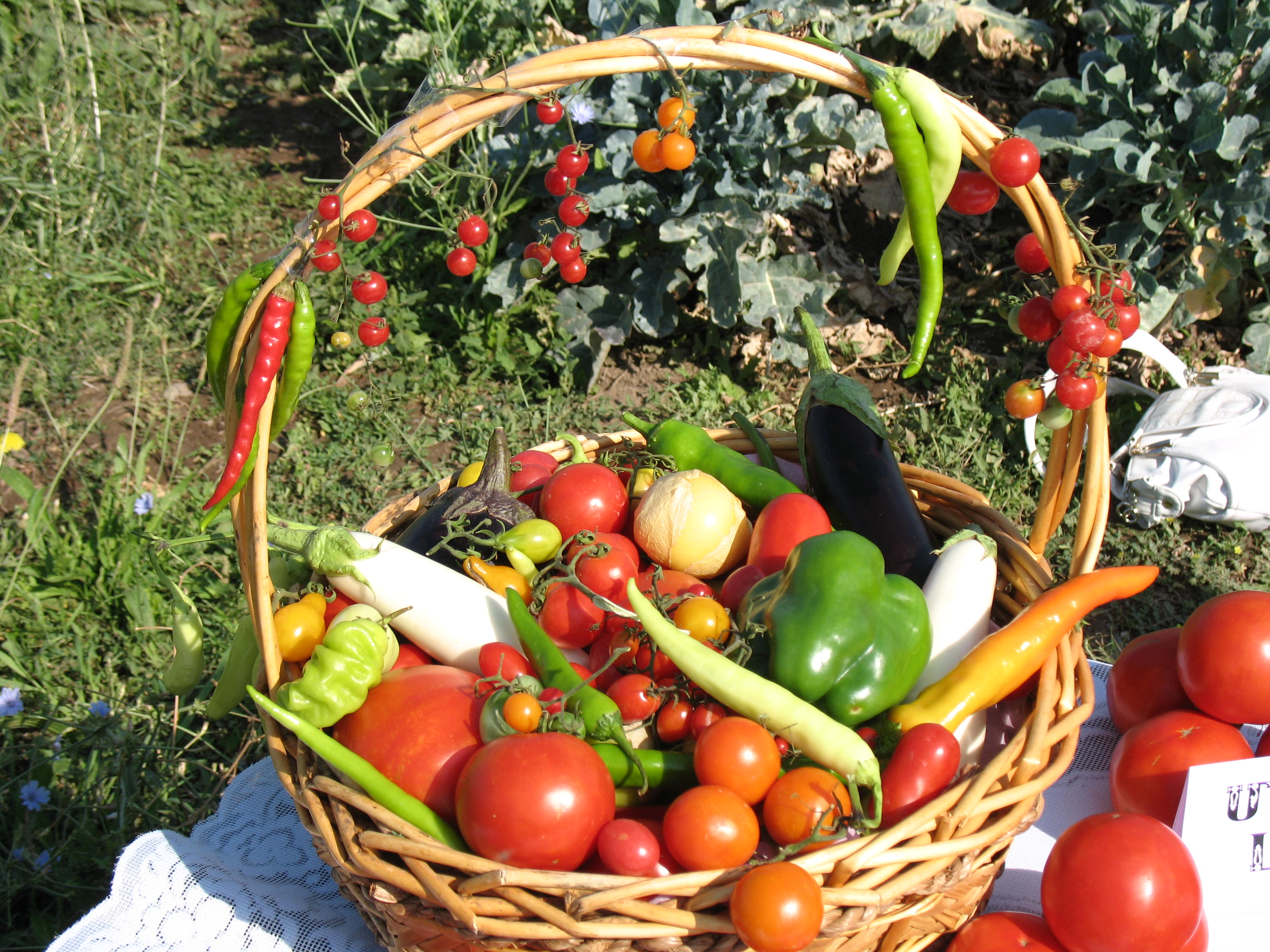 Vegetable basket from Armenia.